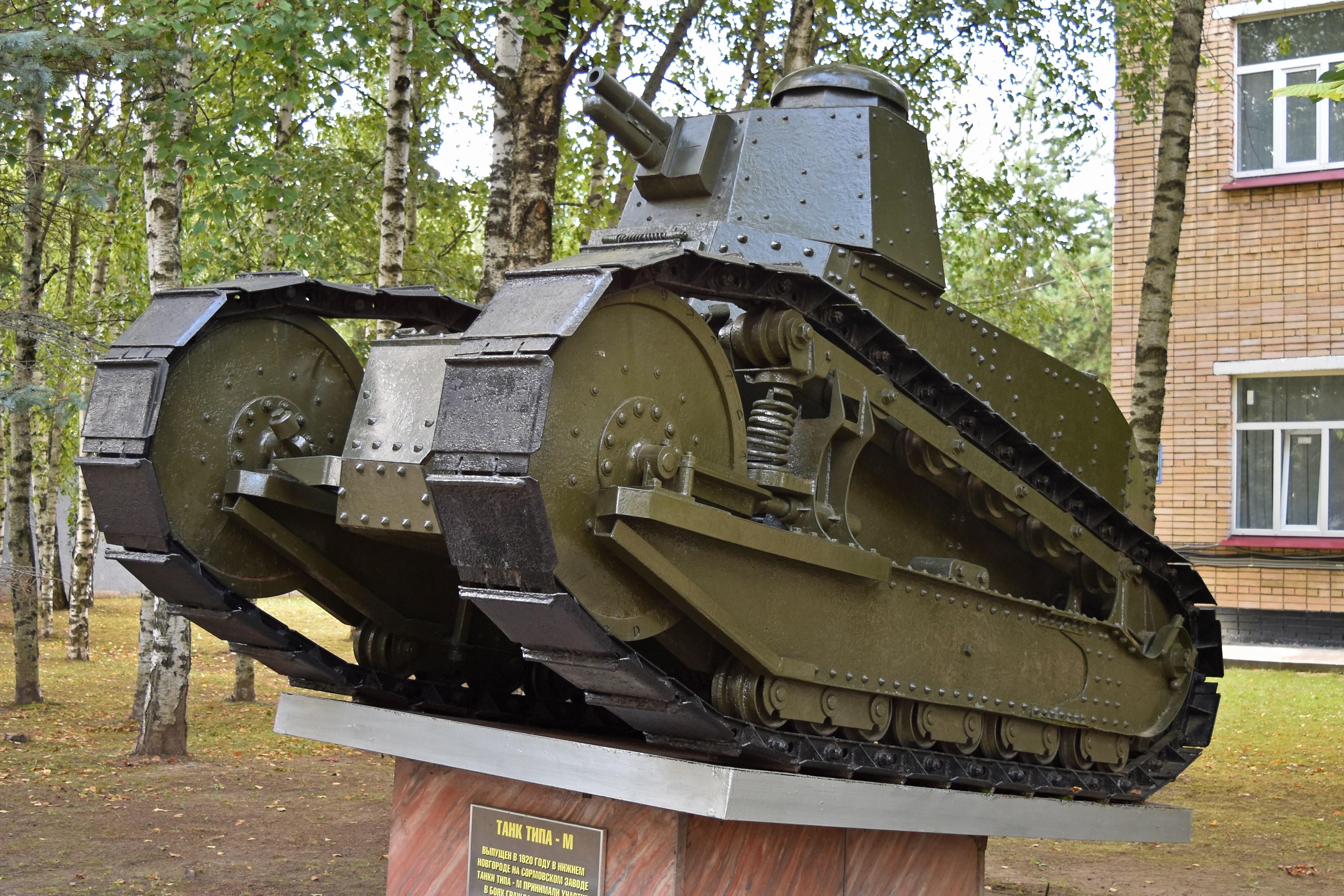 The Soviet Red Army captured 14 burnt-out Renault FTs from White Russian forces and rebuilt them at the Krasnoye Sormovo Factory in 1920. 15 nearly exact copies, called "Russkiy Renoe", were produced in 1920–1922, but they never used in battle because of many technical problems. This example, believed to be part replica, is on display outside at what is known as the Kubinka Tank Museum, although it is now officially titled Area 2 of the Park Patriot Museum. Kubinka, Moscow Oblast, Russia. 24th August 2017 The following info comes from the excellent ‘ ’ “The original source of this KS is unknown but it is presumed to have been one of the original Soviet FT tanks. If so, it is possible to determine the likely route it took from France to Russia. These tanks were captured by the Bolshevik Red Army from the White Russian forces that were in turn supported by the French Army. In the autumn of 1918 the third company of the French unit AS303 was secretly transferred to Romania via Salonika in an attempt to support Romanian plans to re-enter the war on the Allied Side (source: S. Zaloga, ‘The Renault FT Tank’). The tanks were landed on 4 October 1918, but did not see any fighting; instead they were reloaded on ships and landed at the Black Sea port of Odessa on 18 December 1918. They were first used in February 1919 supporting a Polish infantry attack near Tiraspol. They were then all either lost in action in fighting in March near Berezovka, or were left behind when the French abandoned Odessa in April 1919. In 1919 and 1920 the Bolsheviks rebuilt them and they became a popular fixture at Red Army parades in the early 1920s.”